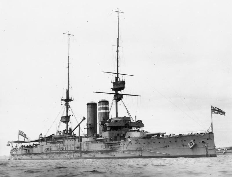 British battleship HMS DOMINION.